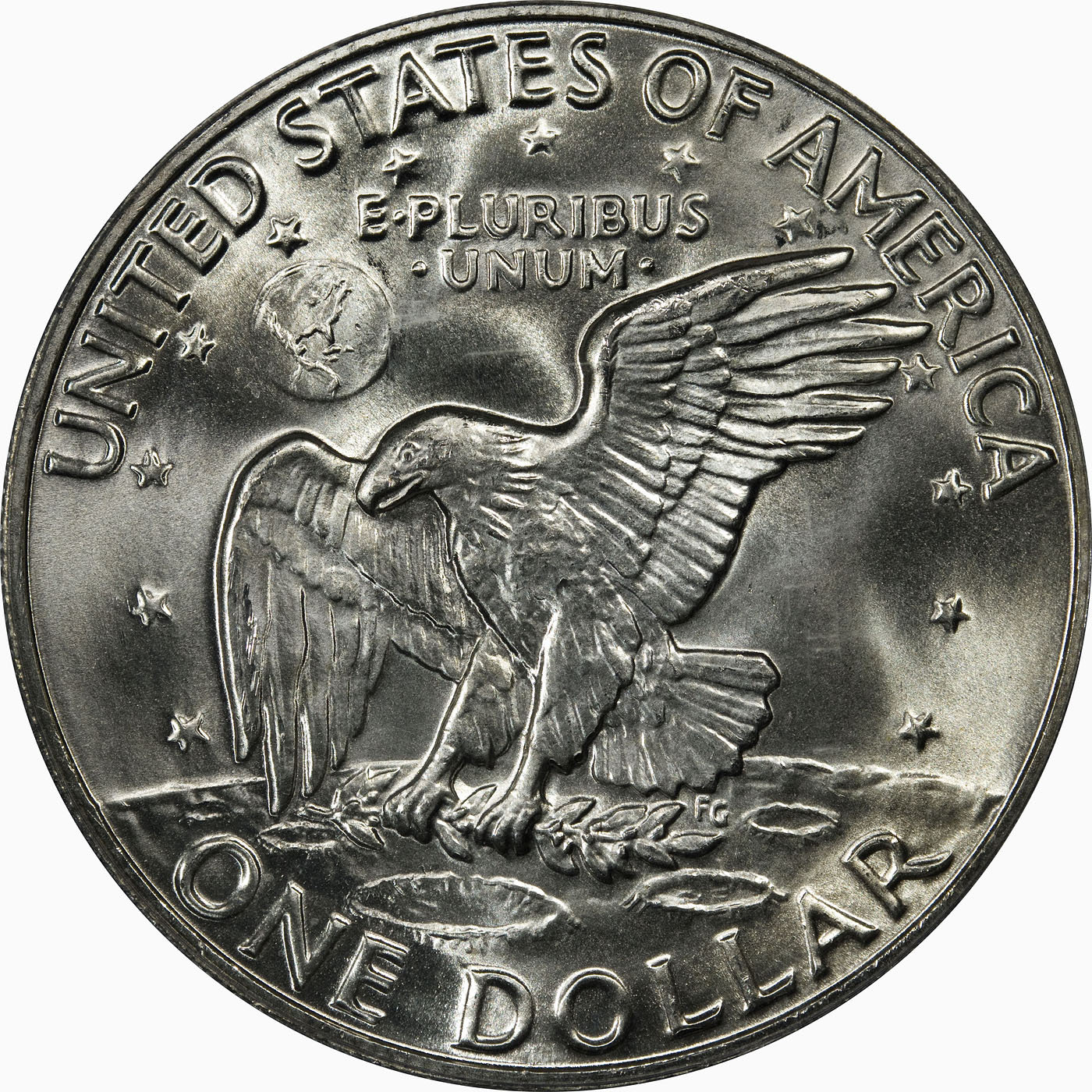 Eisenhower dollar reverse design used from 1971-1974 and again from 1977-1978. This particular coin is the silver version of the coin minted in 1974 at the San Francisco mint and graded MS67 by PCGS.